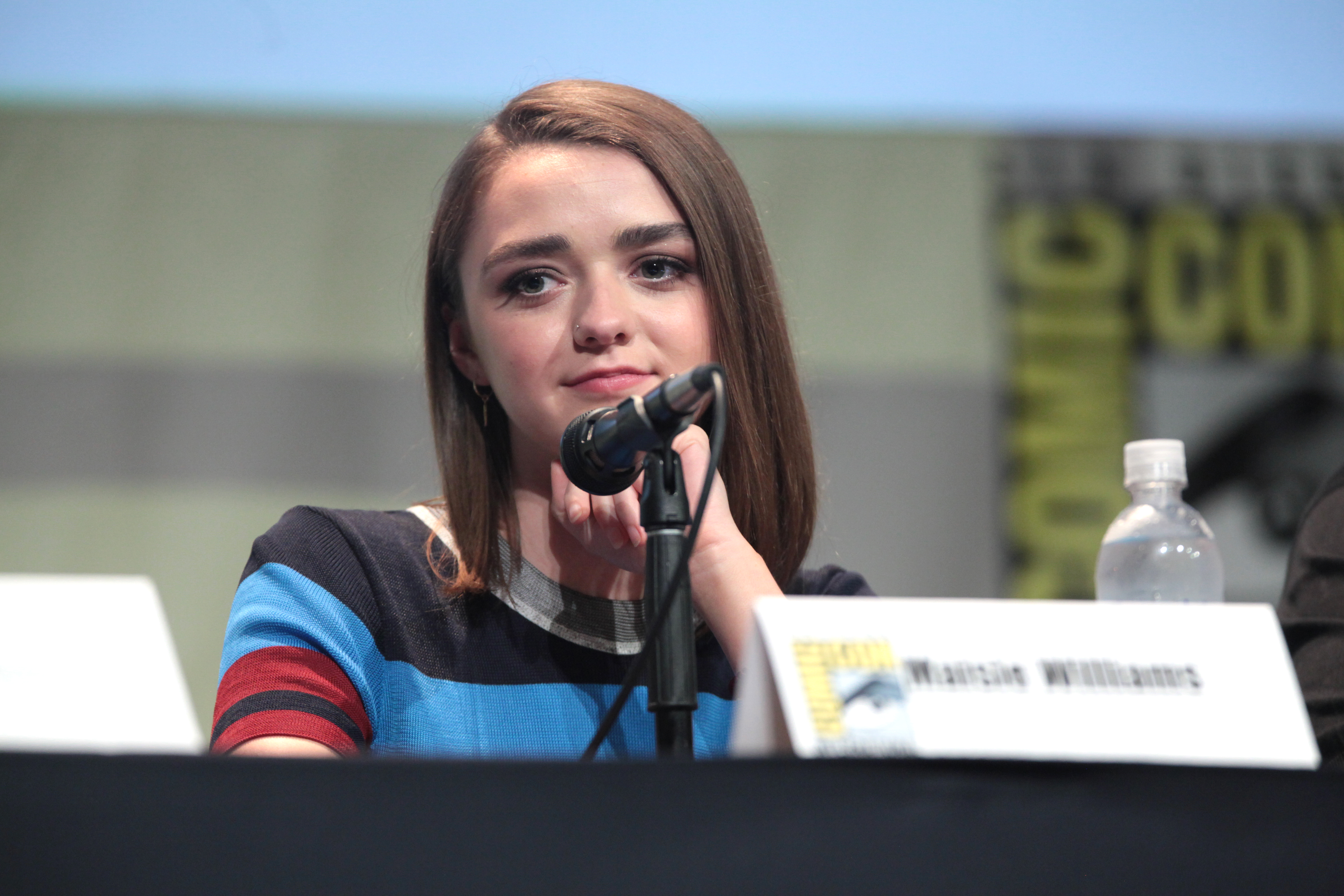 Maisie Williams speaking at the 2015 San Diego Comic Con International, for "Game of Thrones", at the San Diego Convention Center in San Diego, California.